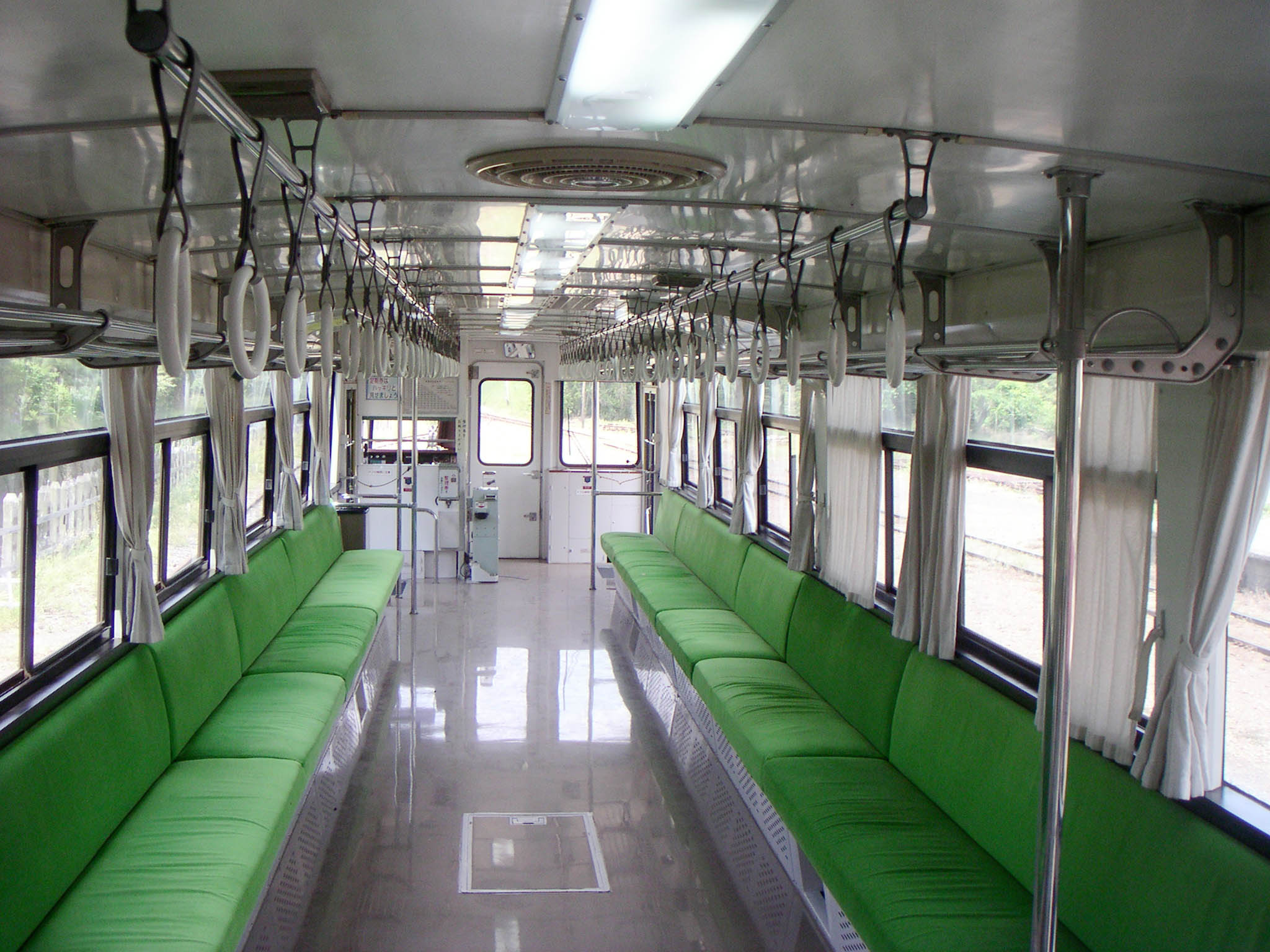 IsumiInterior of Isumi Line train Source: ph by っ May 2005